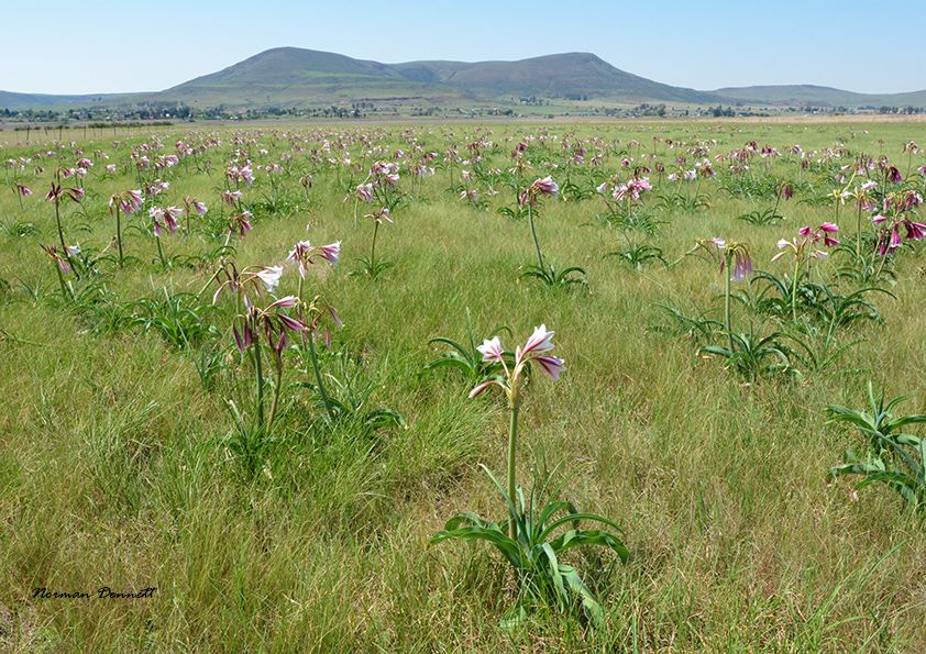 Crinum bulbispermum (Burm.f.) Milne-Redh. & Schweick. - Wakkerstroom area, South Africa